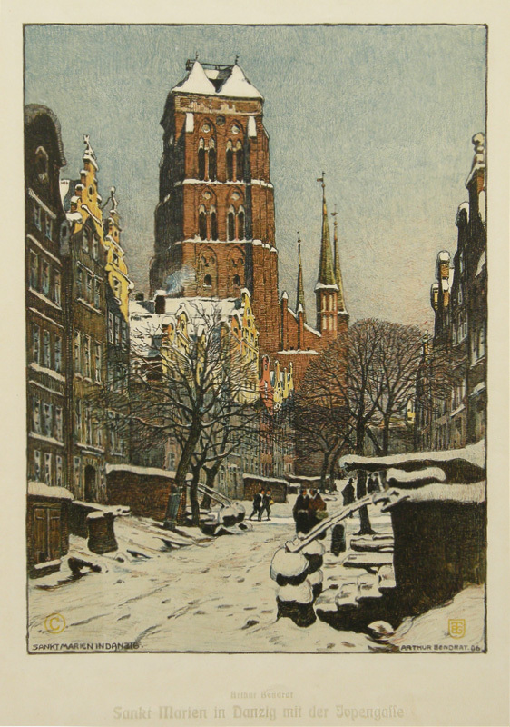 color lithograph Image Size 16 x 11" 3/4" image Signature in plate lr Edition Size unknown Annotations title in plate; chop of the publisher in lower right within image Reference Paper cream wove Publisher B.G. Teubner, Leipzig, chop in lower right